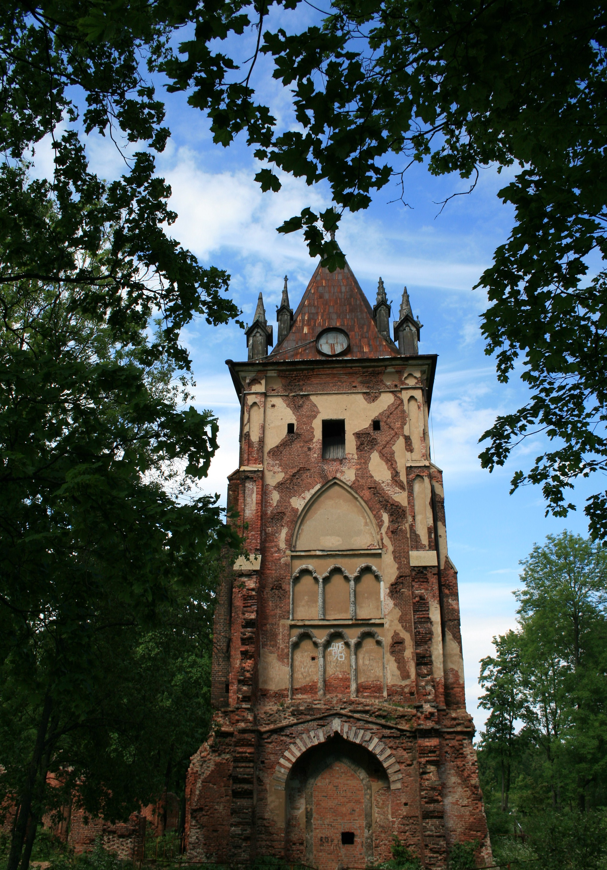 Alexander Park in Tsarskoe Selo, «Shapel» pavilion